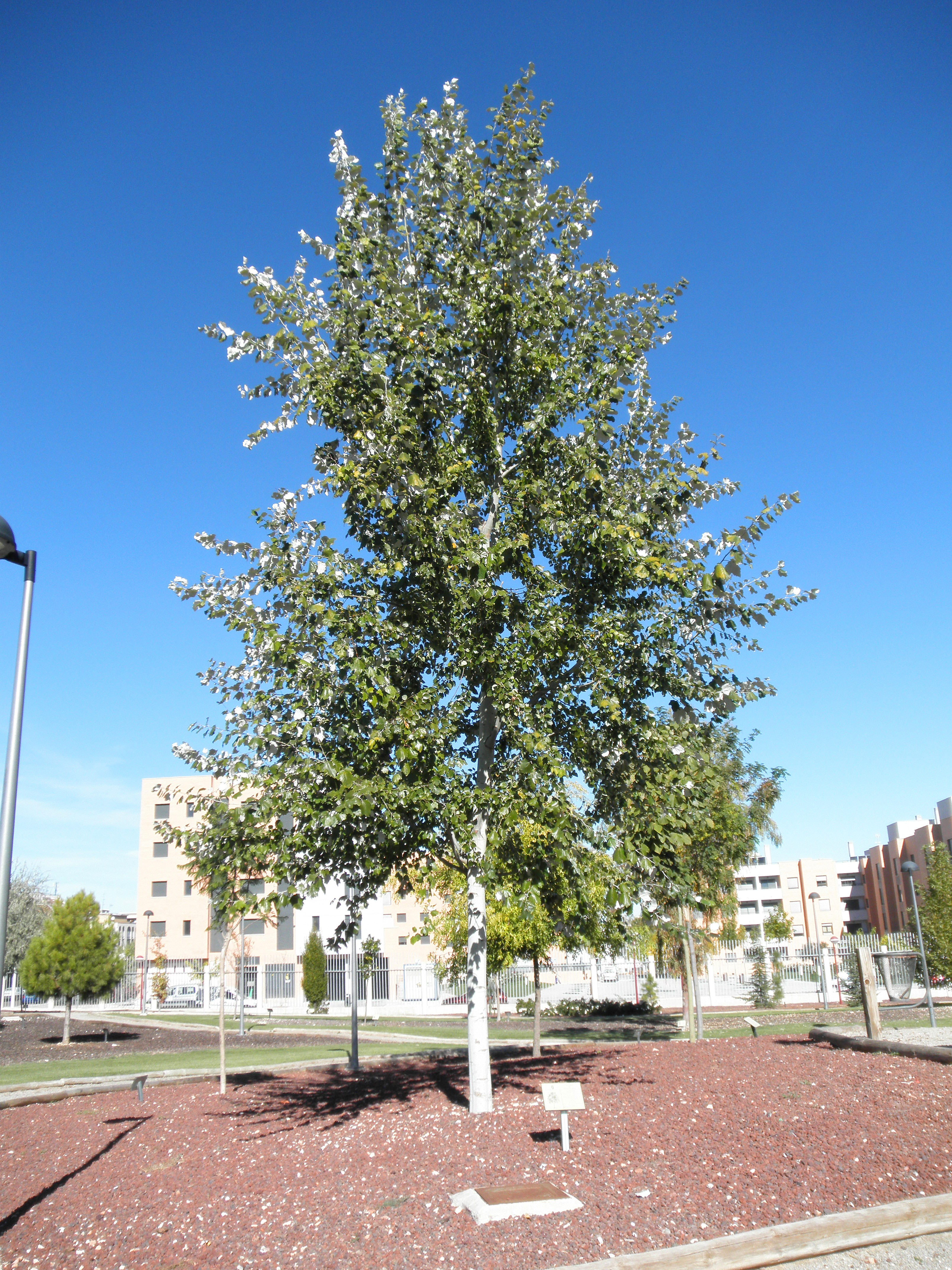 Populus alba habit, Parque El Pilar de Ciudad Real, Spain